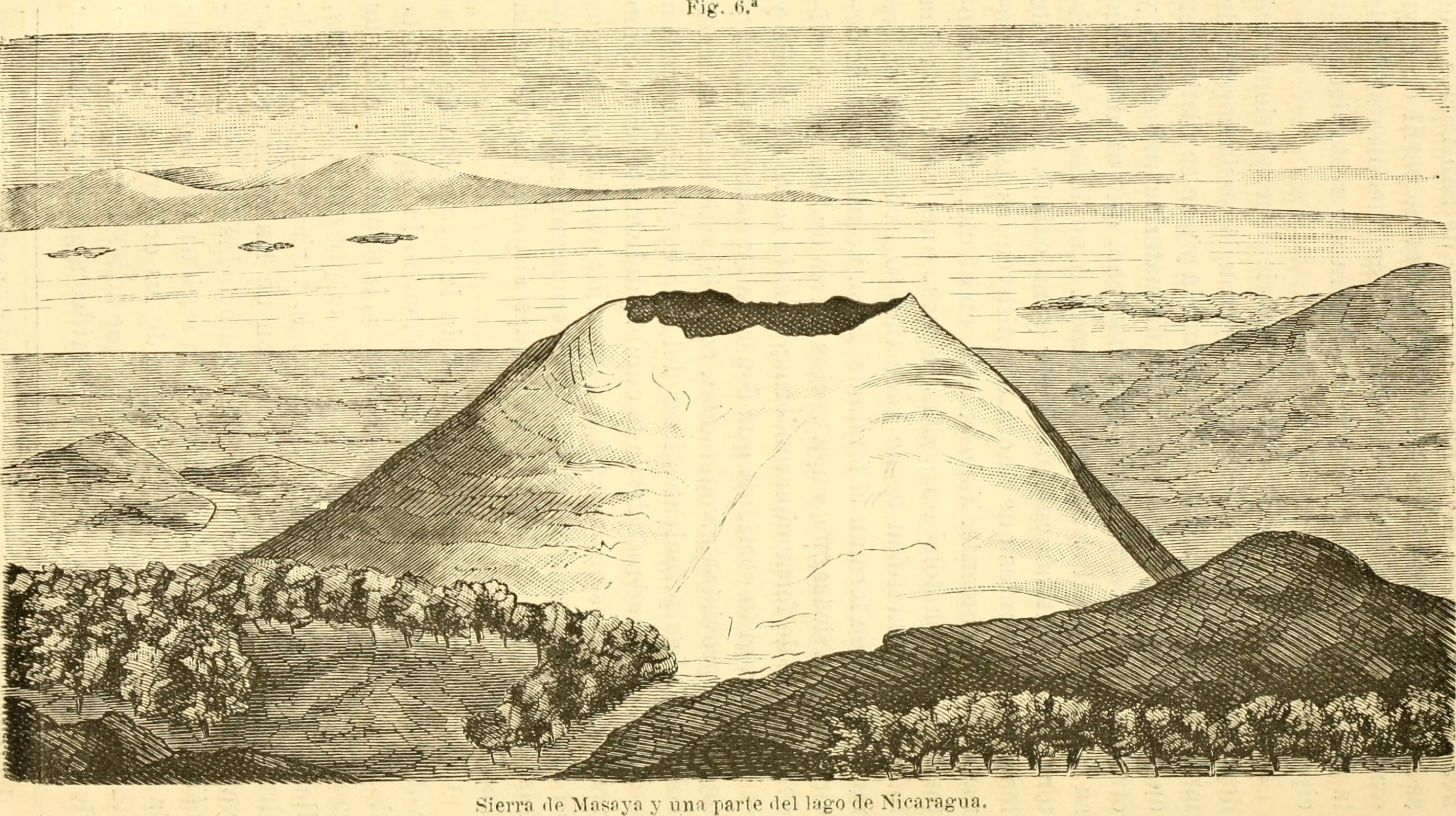 i